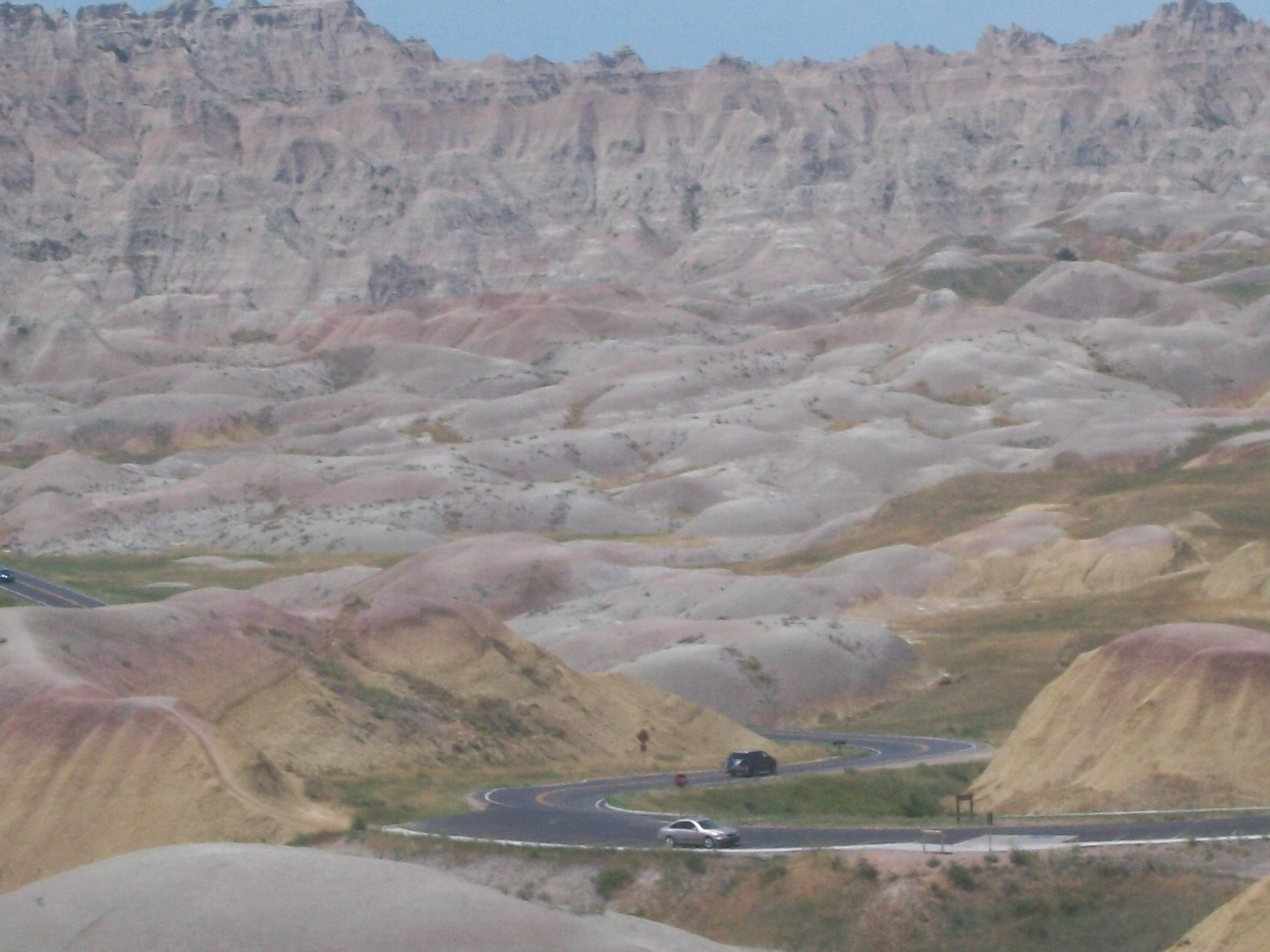 South Dakota Highway 240 treks through the Badlands National Park.